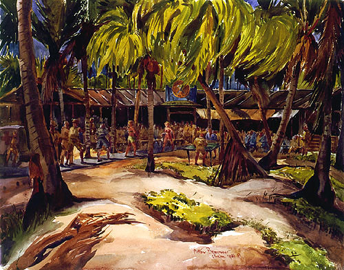 Cross Spikes Club Arthur Beaumont #14 Watercolor, 1946 Work of Arthur Beaumont, Navy painter